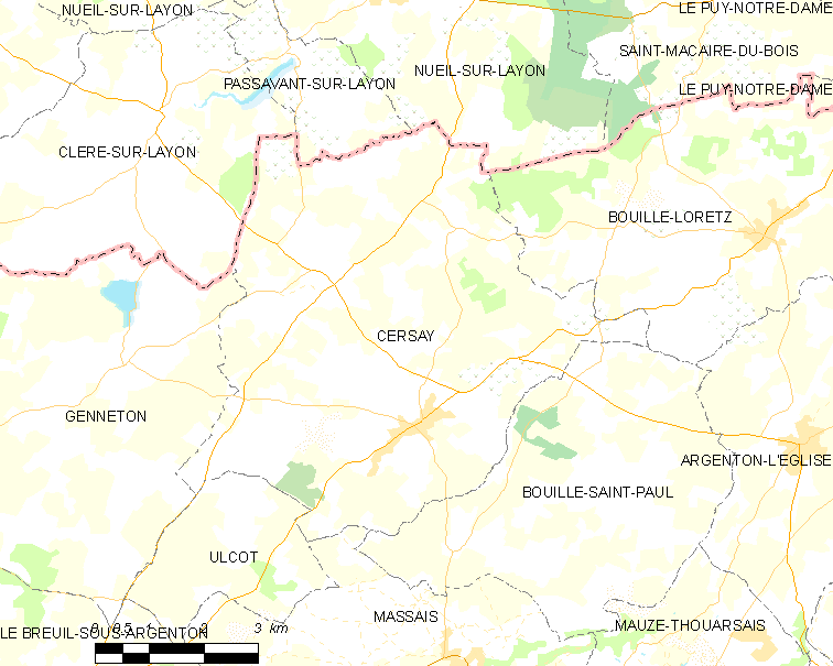 Map of French municipality Cersay